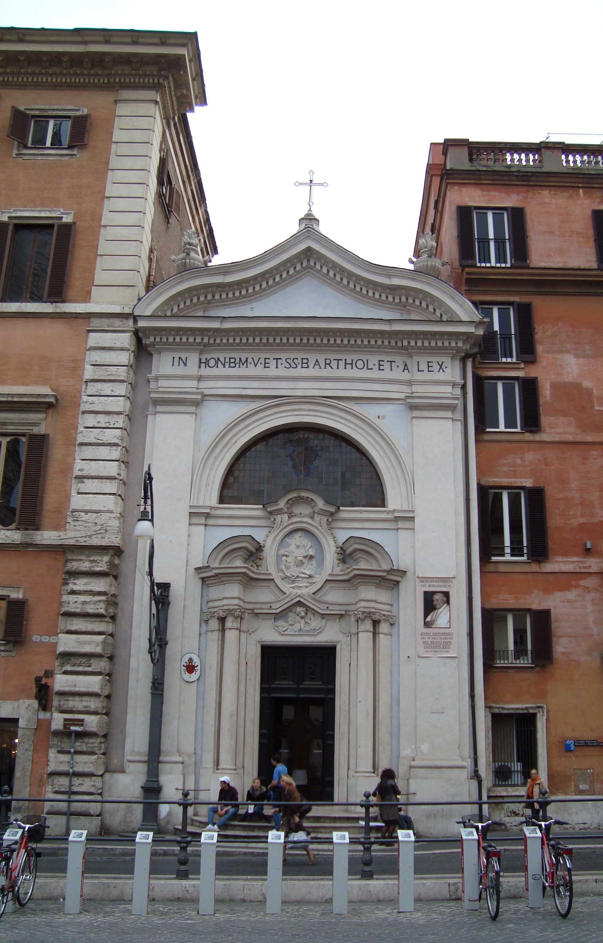 Chiesa_dei_Santi_Bartolomeo_e_Alessandro_dei_Bergamaschi in Rome at Piazza Colonna